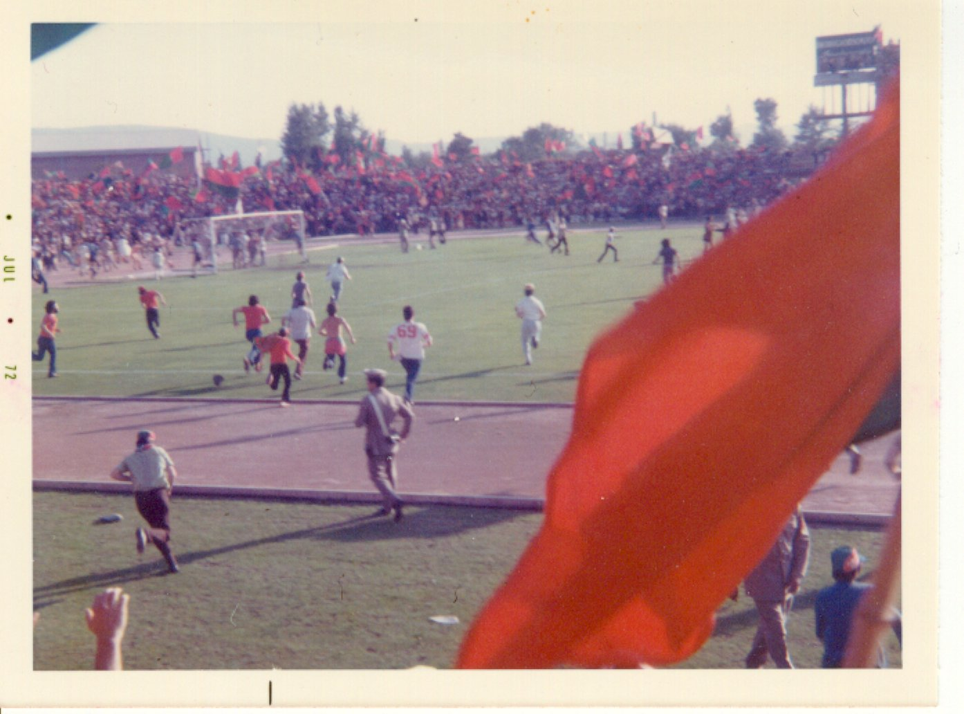 Terni (Italy), "Libero Liberati" Stadium, June 18, 1972. A.C. Ternana — A.C. Novara (3-1), Matchday 38 of the Italian League 1971–72 Serie B.